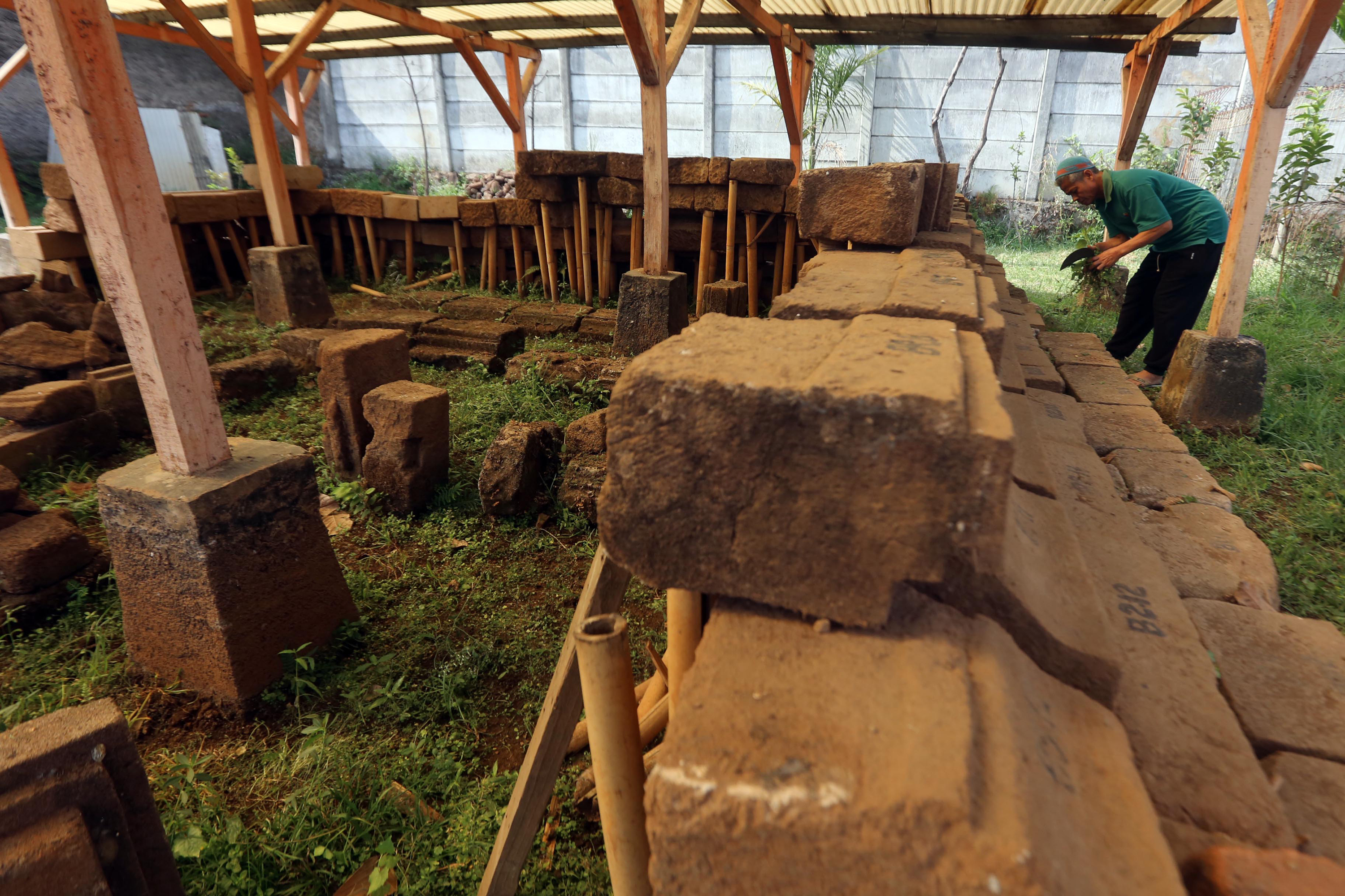 Ahmad, 63, membersihkan susunan batuan yang merupakan bagian dari Candi Bojong Menje di ruang penyimpanan situs di Kampung Bojong Menje, Desa Cangkuang Kecamatan Rancaekek, Kabupaten Bandung. Meski proses ekskavasi Candi Bojong Menje dengan luas 630 meter persegi dari luas perkiraan 5 hektar ini tertunda karena masalah pembebasan lahan dari kepemilikan pribadi dan pengusaha industri tekstil, namun kawasan peninggalan Kerajaan Kendan ini mampu menjadi objek wisata dan penelitian sejarah.